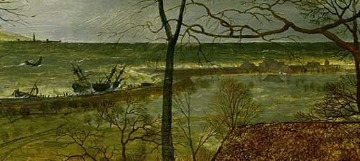 From the series of pictures of the seasons: the gloomy day (early spring)